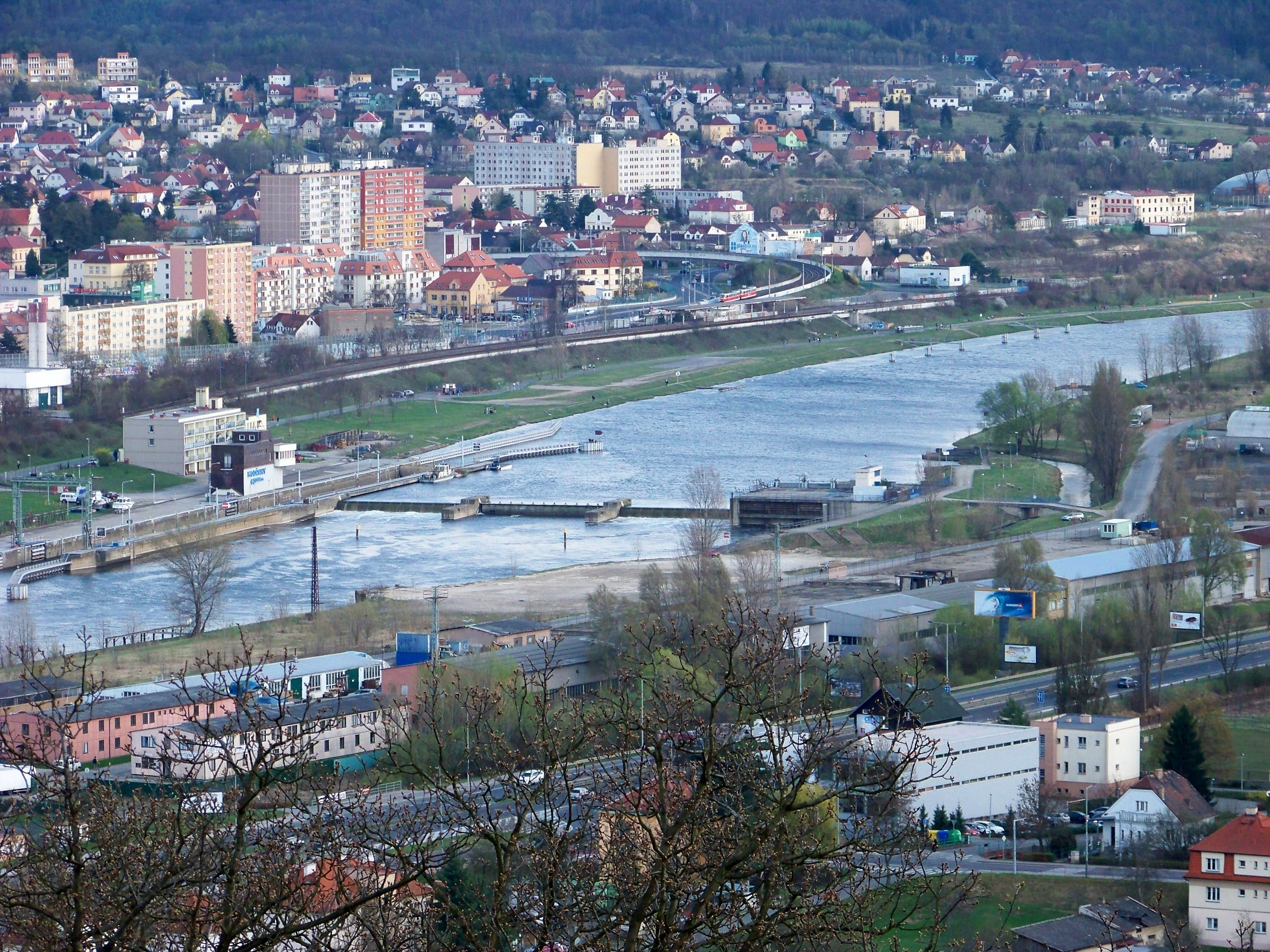 Prague, the Czech Republic. A view of Modřany Weir from Saint John of Nepomuk Church in Chuchle Forest.